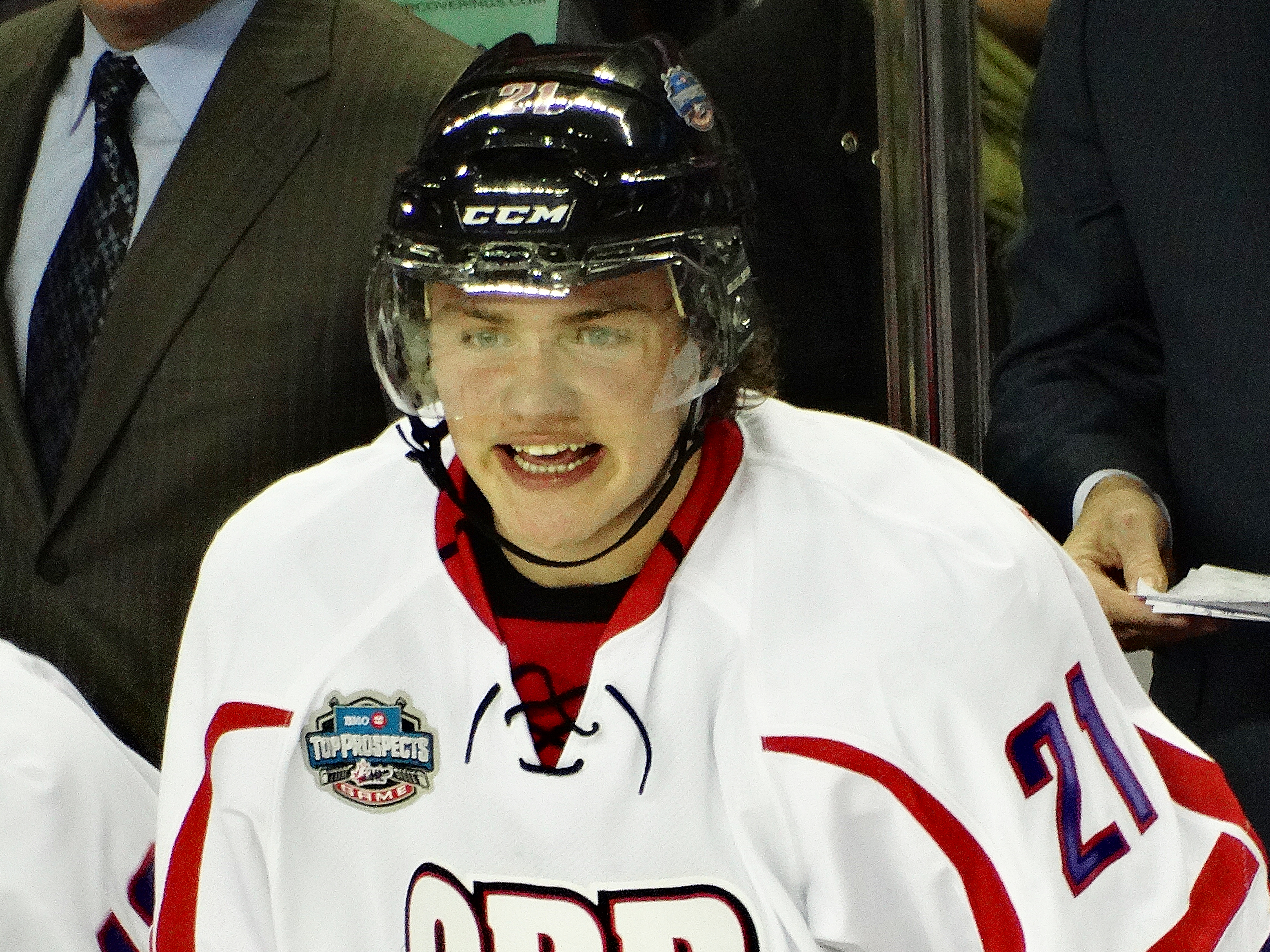 Brendan Lemieux, American-Canadian ice hockey left winger at the CHL / NHL Top Prospects Game